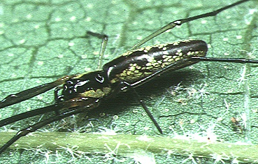 female Tetragnatha lauta from Okinawa.